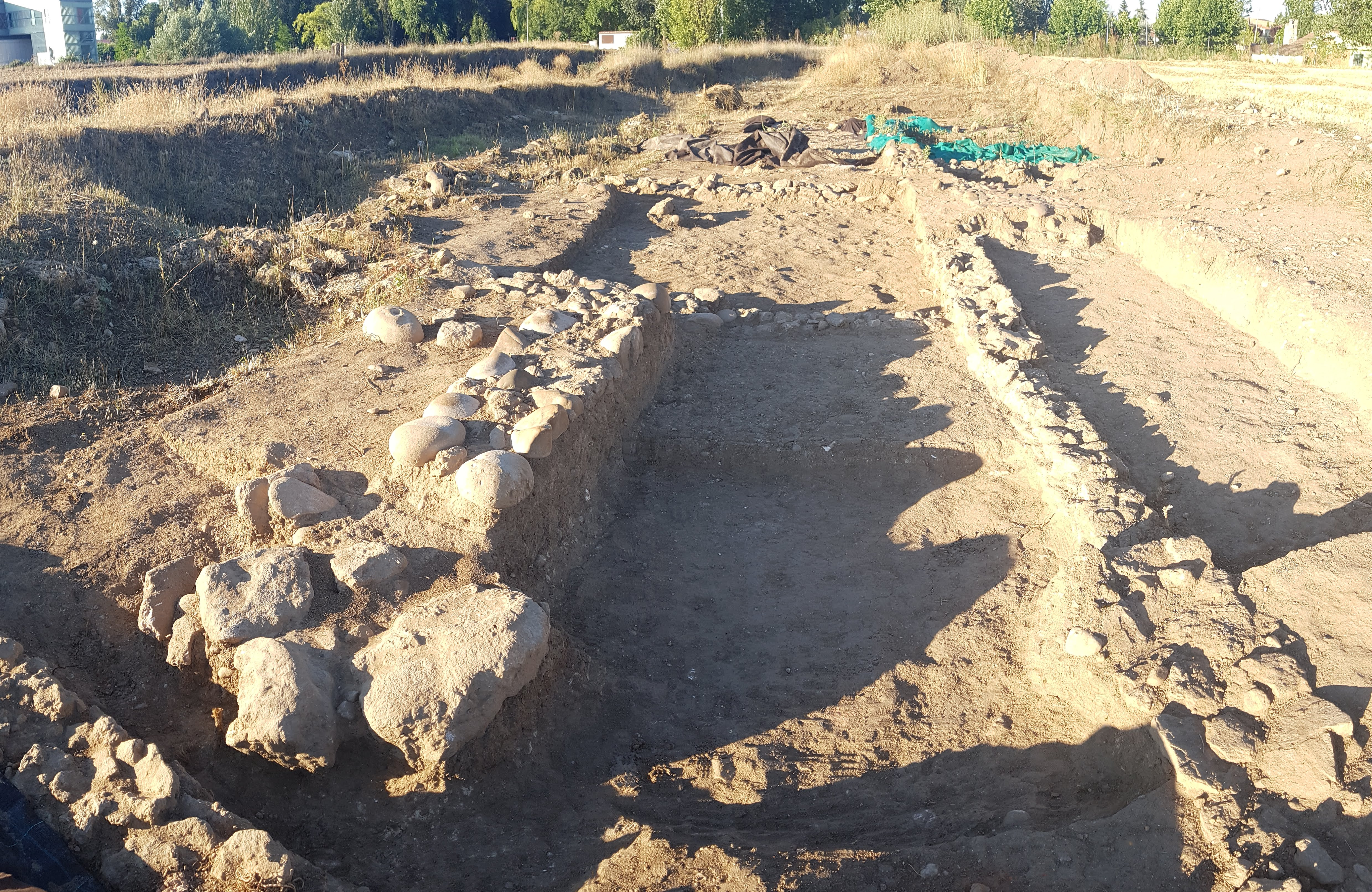 Archaeological excavations in the cannaba of Pisoraca (Herrera de Pisuerga, Castile and Leon).